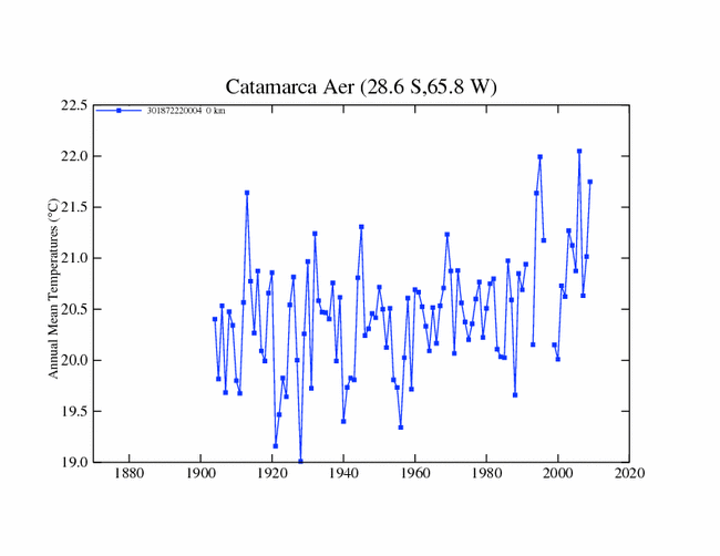 Graph of 1904 2010 air average temperaturas at city of Catamarca, Catamarca province, Argentina